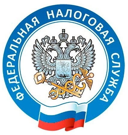 Emblem of Federal Tax Service of Russia 2014